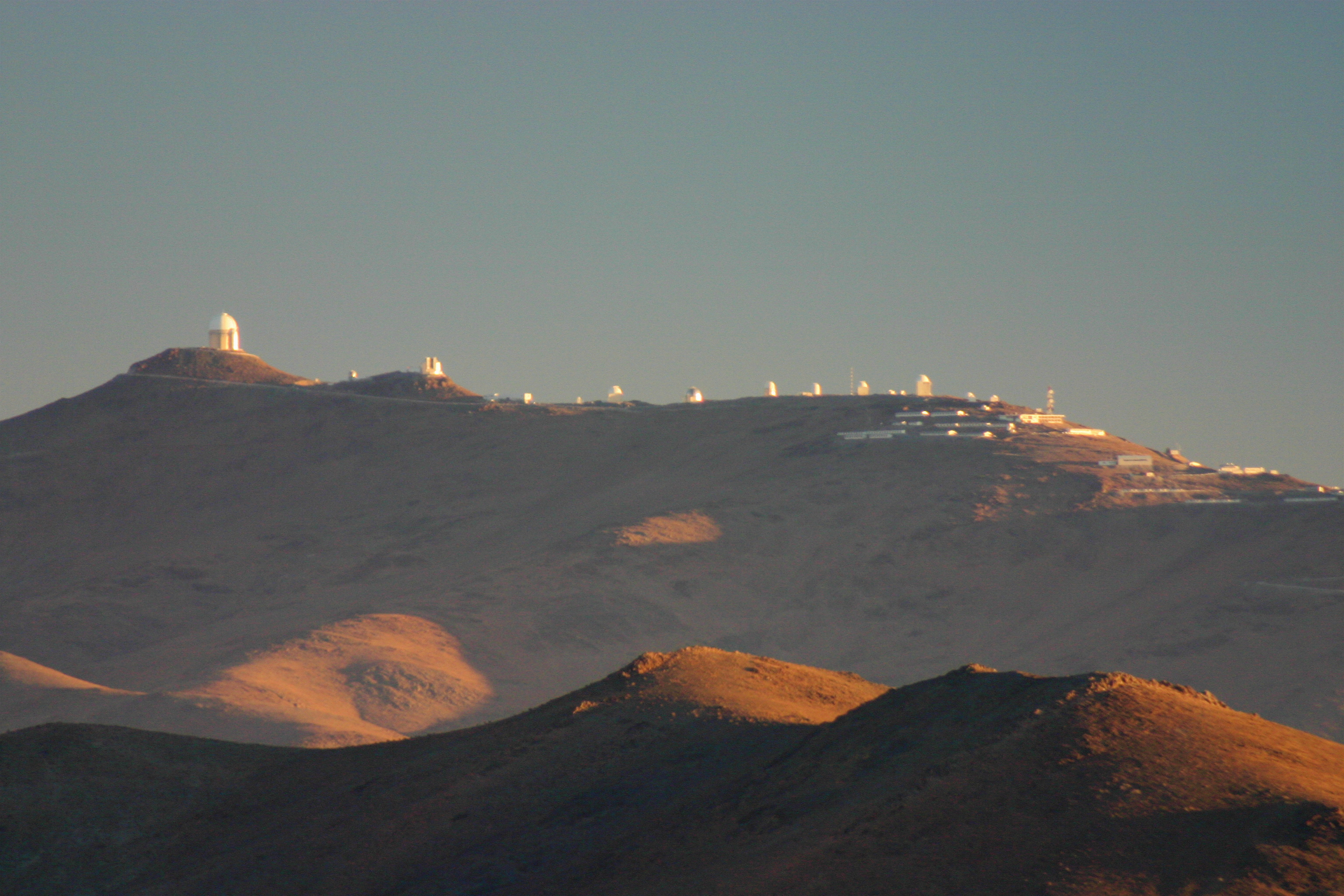 General view of the La Silla observatory, as seen from the road that leads to the Las Campanas Observatory.